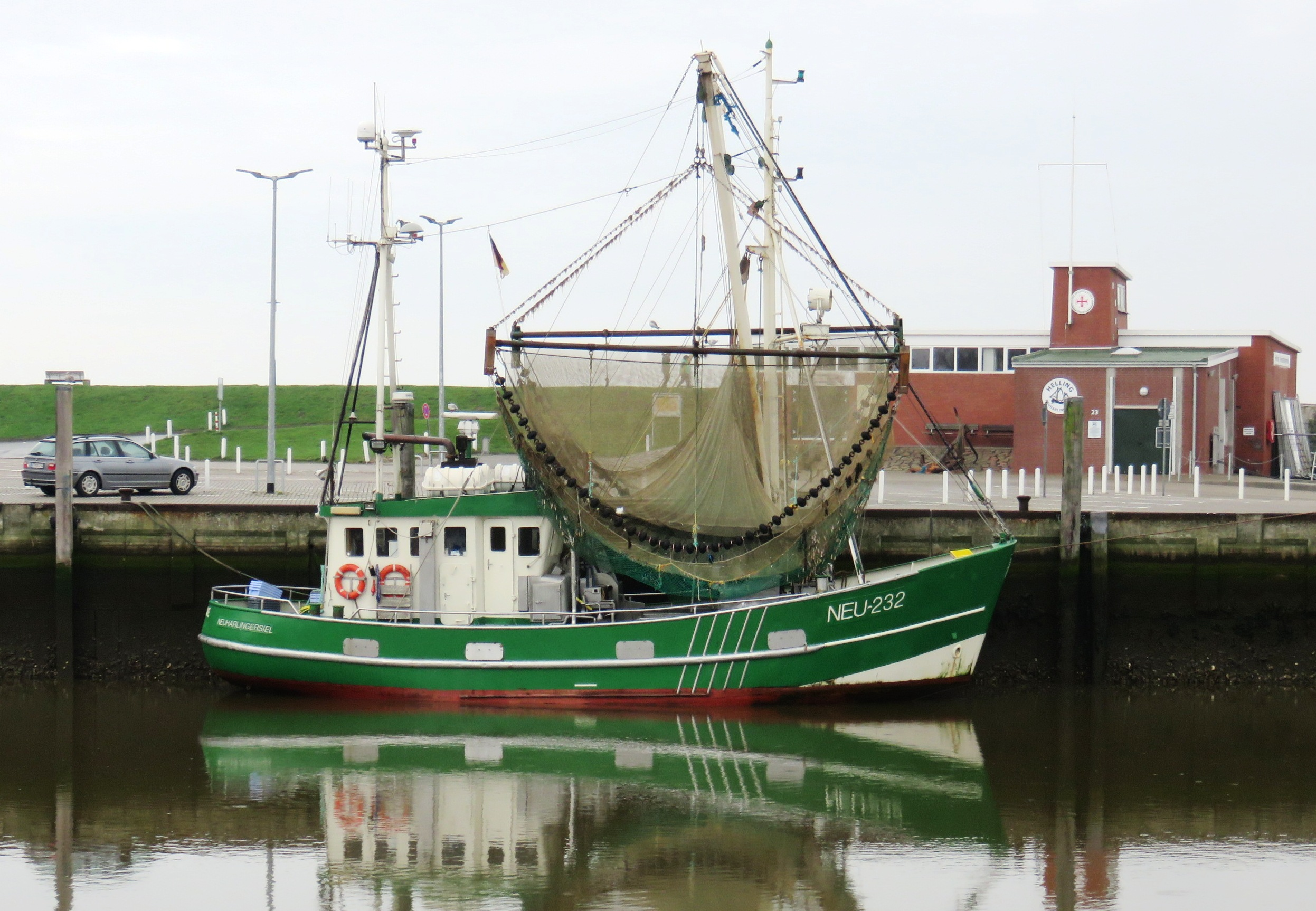 German shrimp trawler NEU-232 Möwe moored in Neuharlingersiel harbour